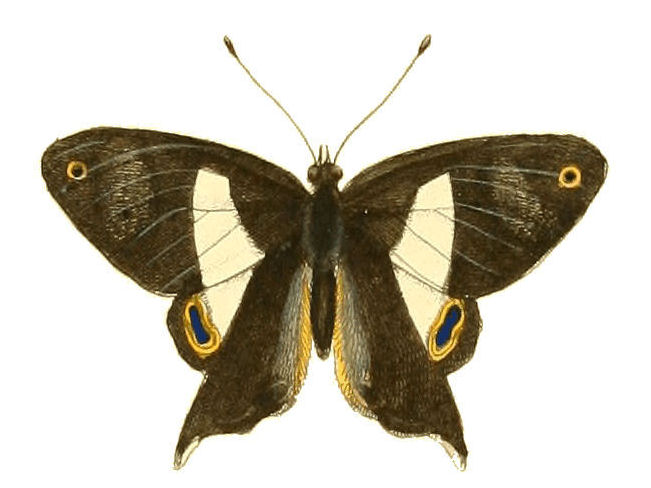 Extract from Plate XII. ERYCINA BAUCIS (= Abisara gerontes).